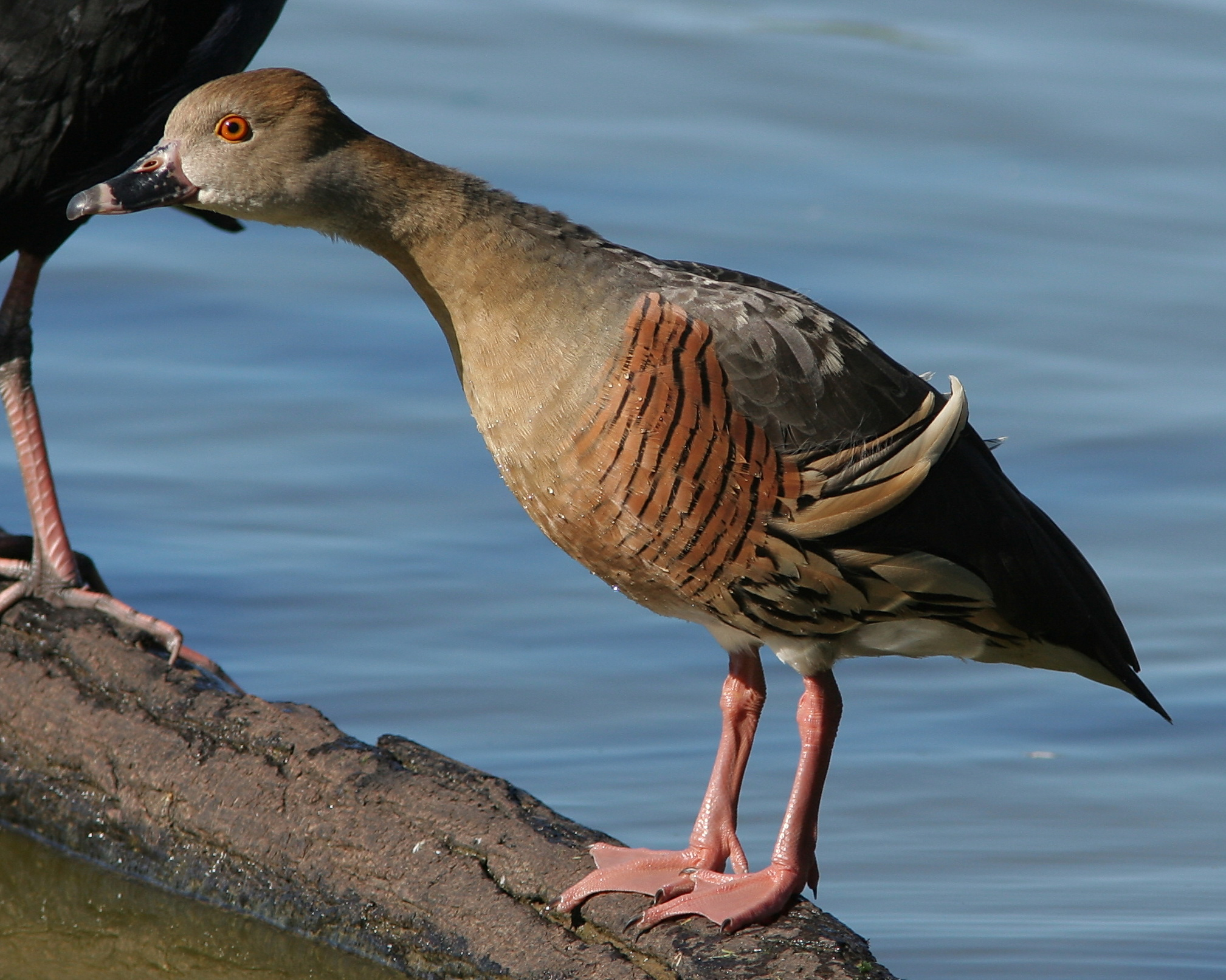 Plumed Whistling-Duck, Dendrocygna eytoni; wild bird